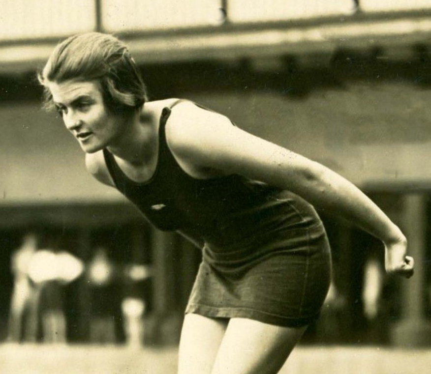 Gwitha Shand in Sydney